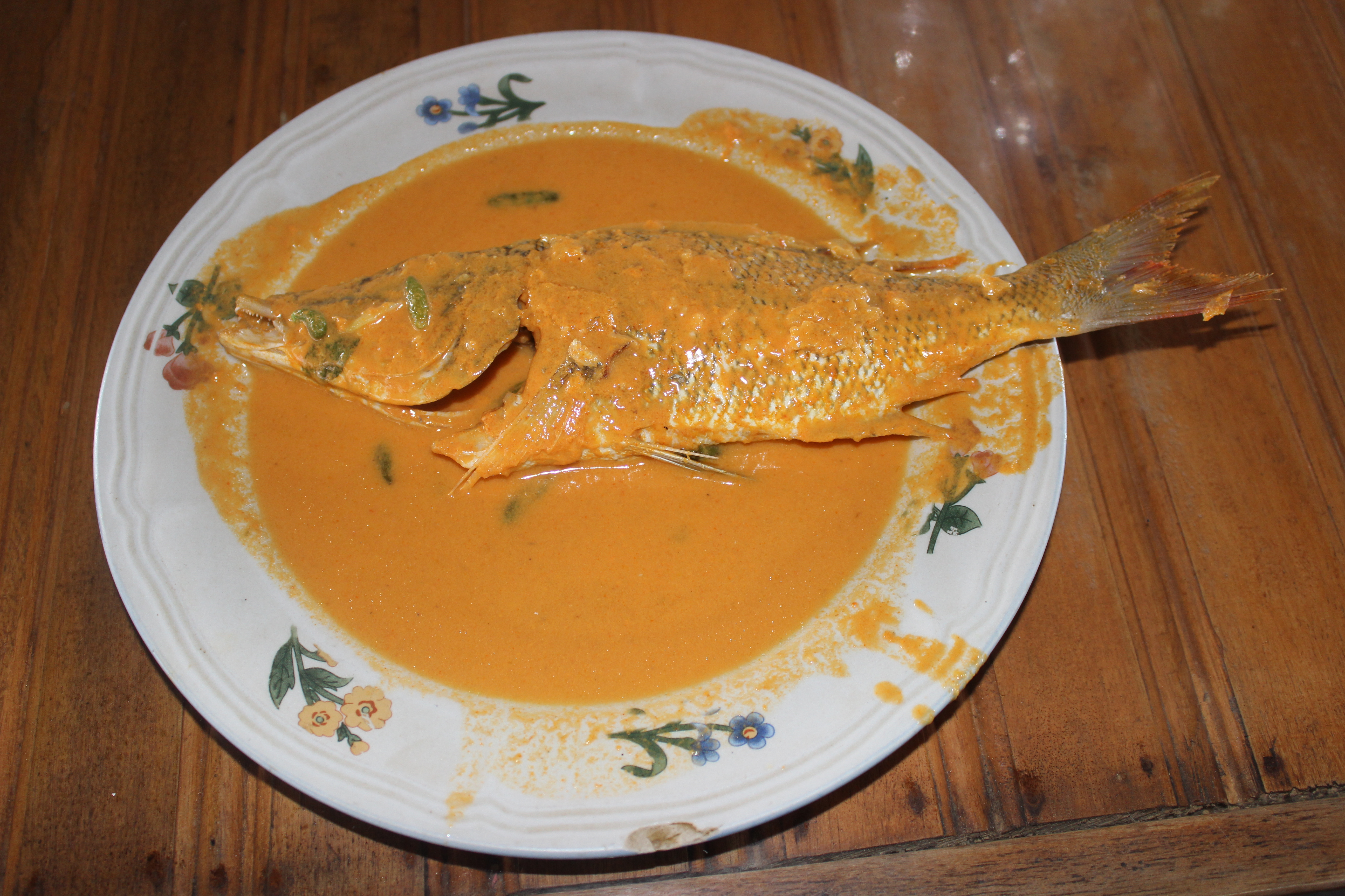 Gulai kerapu, a traditional Pariamanese fish curry, in a restaurant in Pekanbaru.